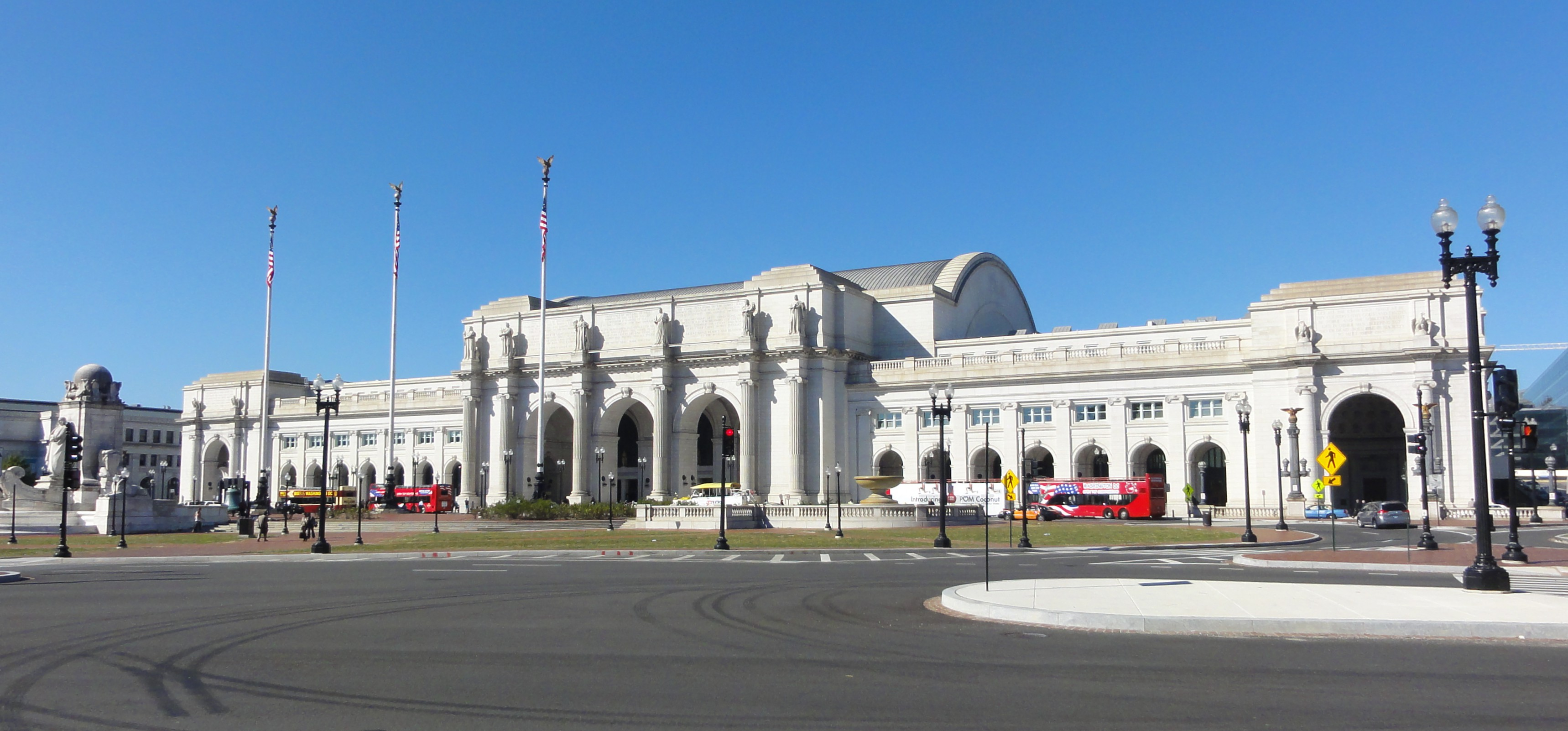 An exterior shot of Washington DC's Union Station from the intersection of Massachusetts Ave NE and Columbus Circle NE, looking north-north-east.